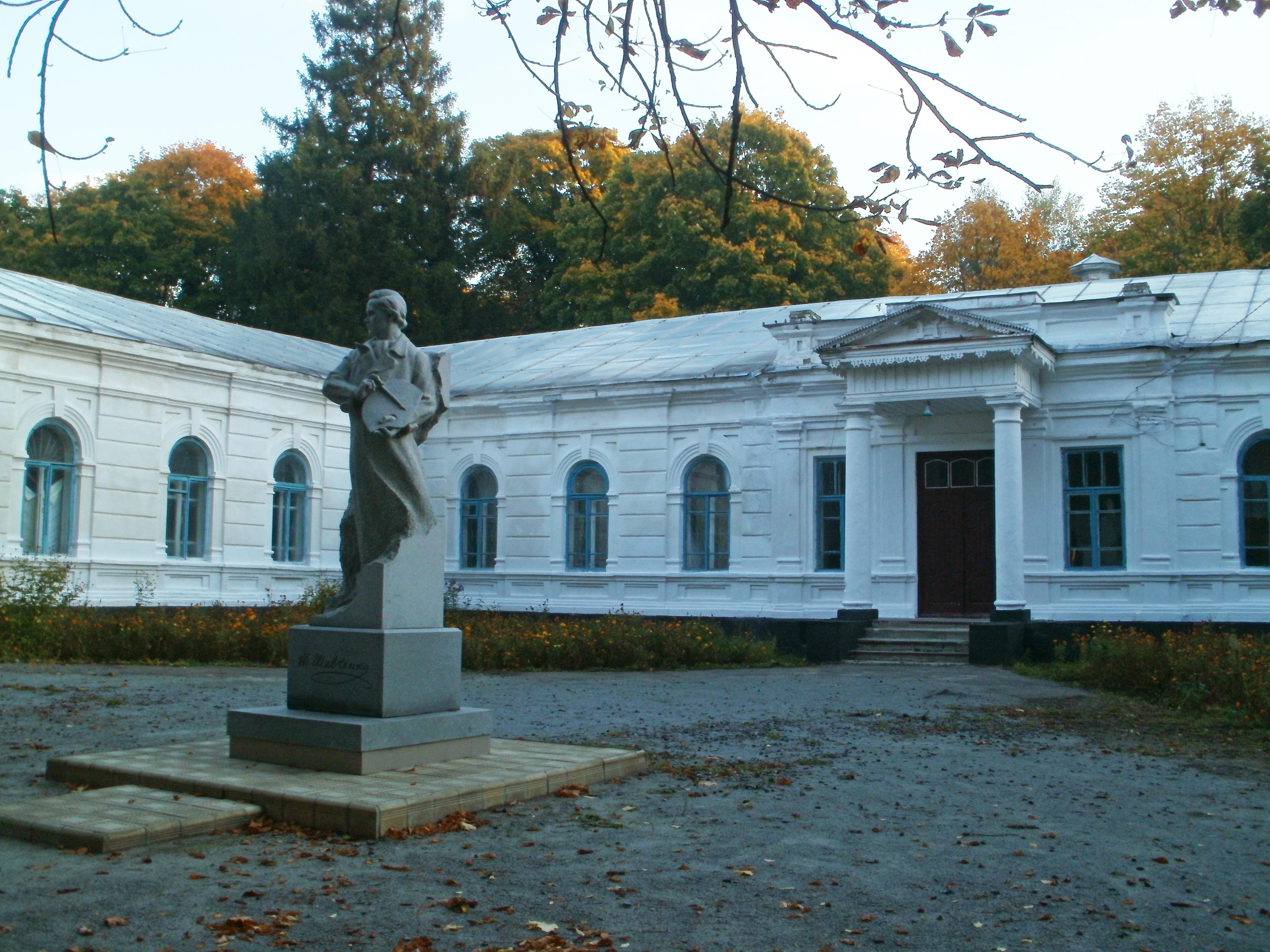 Taras Shevchenko Monument. Lyzohub House in Sedniv